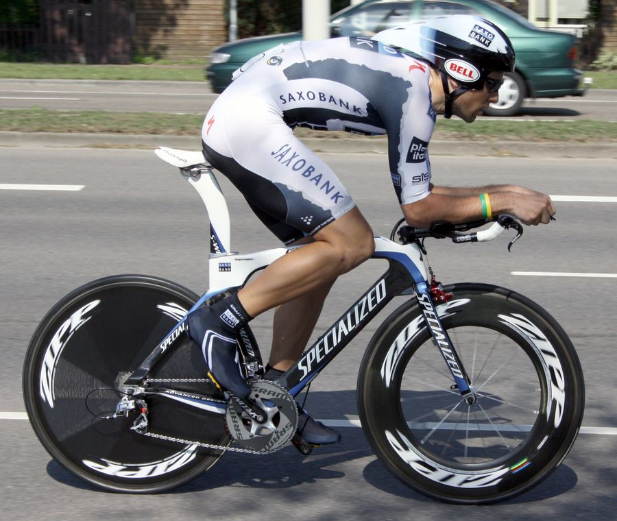 Alex Rasmussen at the 2009 Eneco Tour prologue